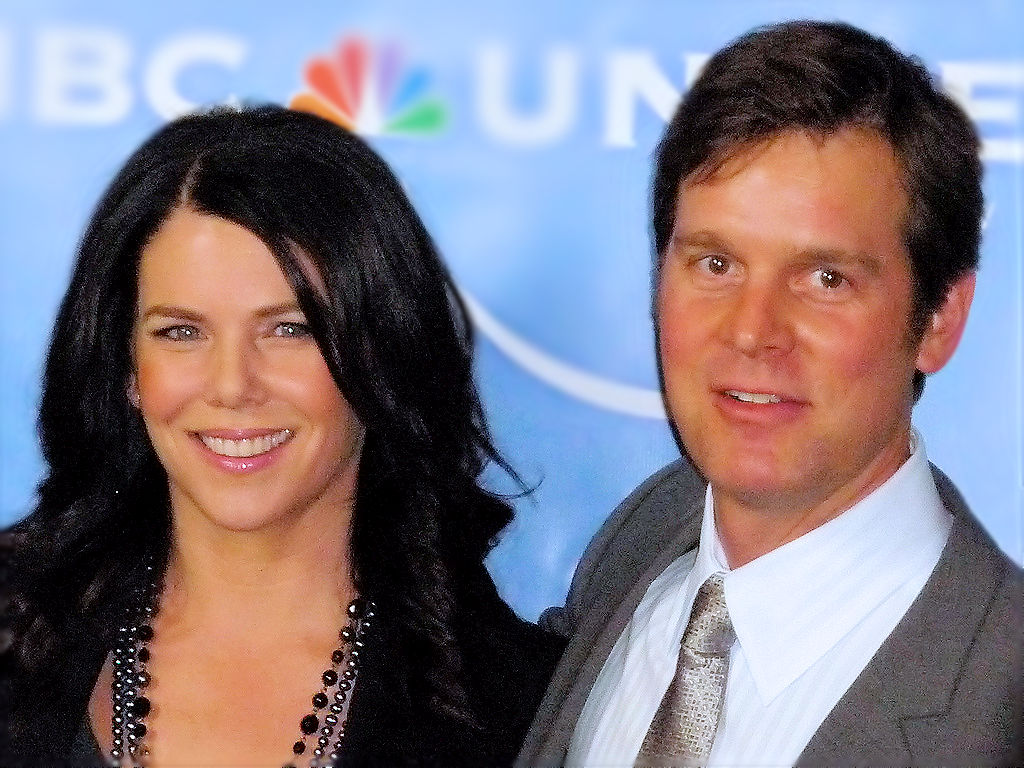 Lauren Graham and Peter Krause on February 5, 2008